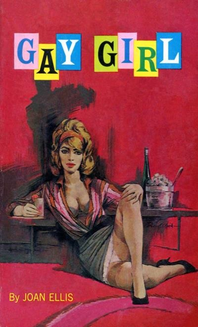 Cover of "Gay Girl" by Joan Ellis (Julie Ellis). Illustration by Jerome Podwil. Midwood F218.